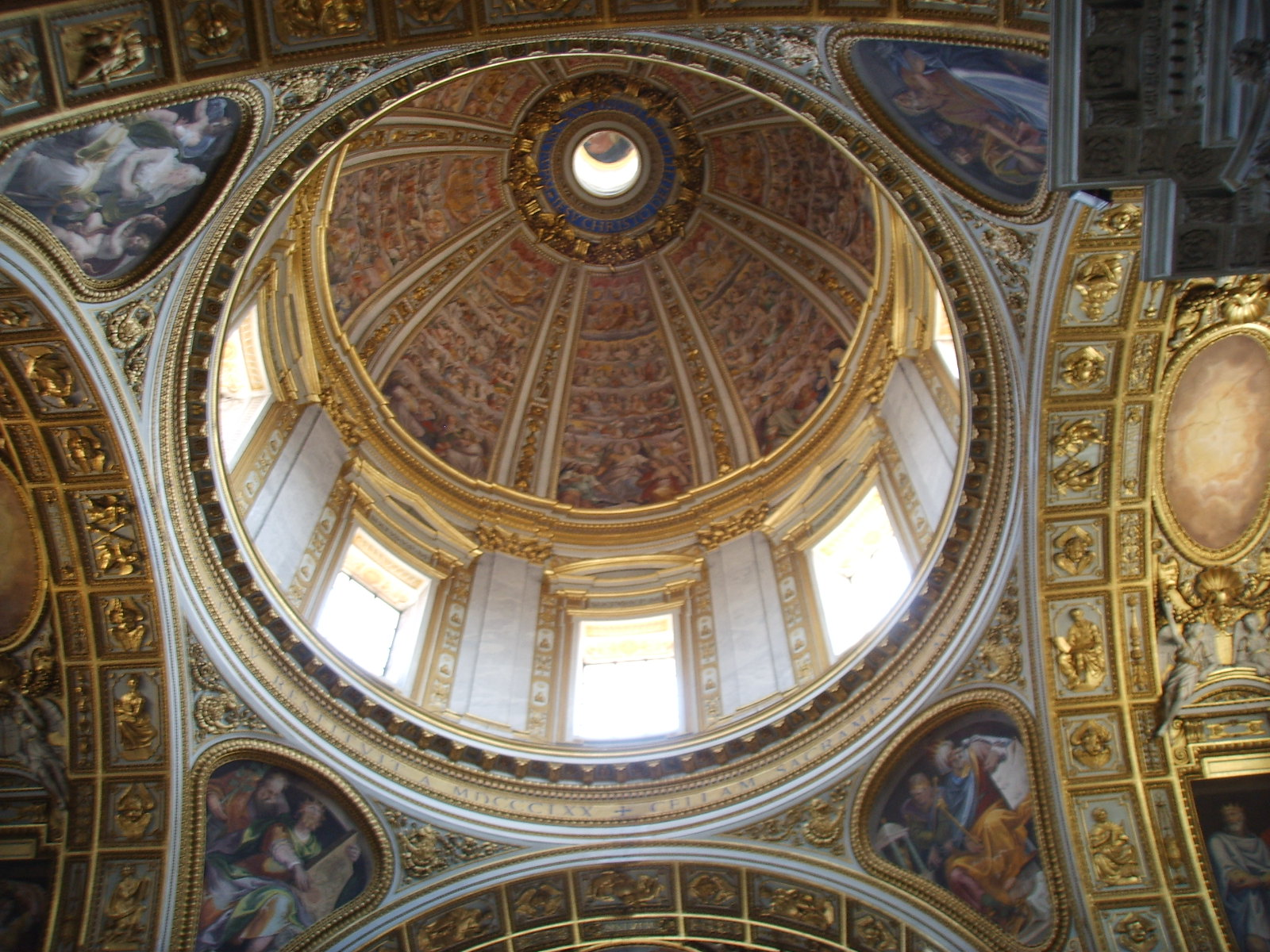 Santa Maria Maggiore church, inside view, Rome, Italy.